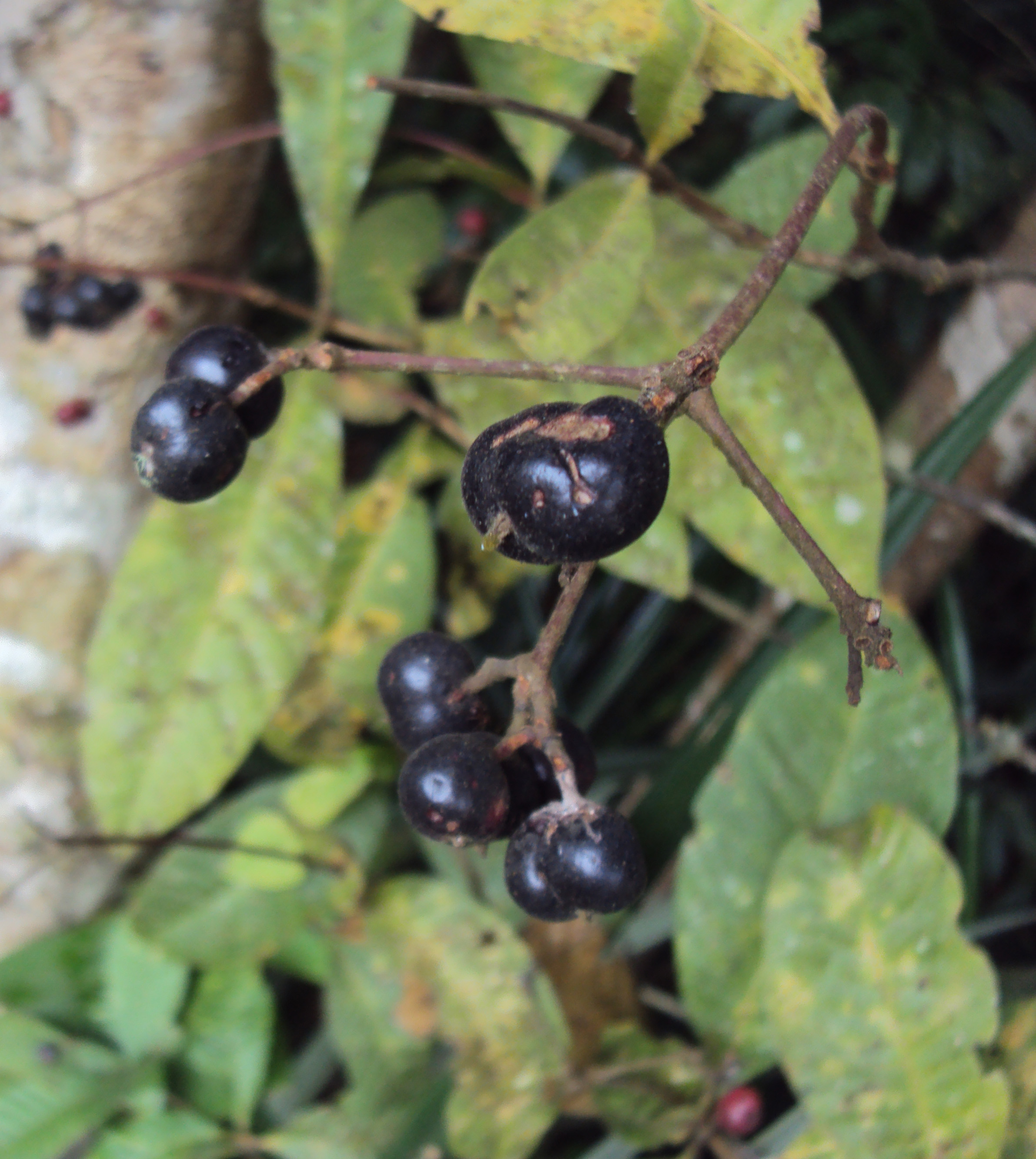 Ixora elongata B.Heyne ex G.Don